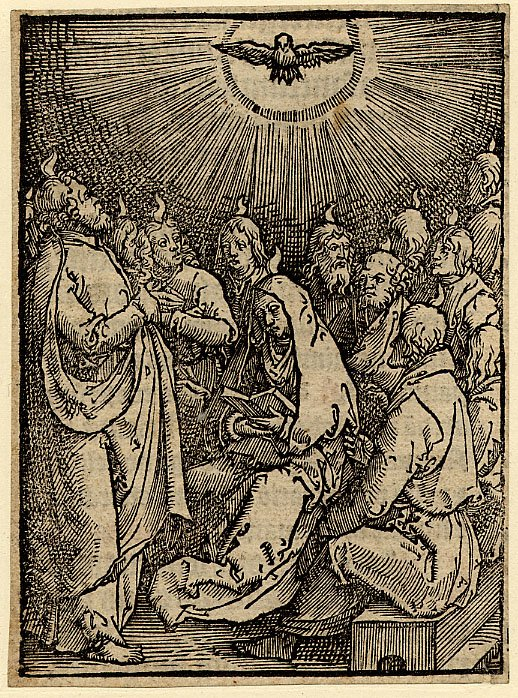 Pentecost